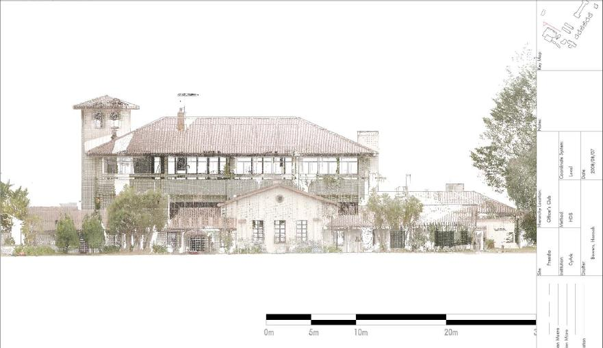 Elevation of the San Francisco Presidio Officers' Club, Plaza de las Armas, California. Created from photo-textured laser scan data. Because El Presidio was always a military base, much of the underlying foundational structures and archaeological remains from its earliest periods remain intact under the present constructions and grounds. The present-day Officers’ Club, 188 feet by 119 feet in plan, is located in the southwest corner of the Plaza de las Armas, the central quadrangle of the original Spanish colonial fort. The old adobe fort, currently the oldest surviving Spanish colonial military building in California, was never demolished to make room for new construction. Rather, the American military expanded it during two different construction periods; first in 1847, by the Mexico who had controlled El Presidio since 1822, then later in 1884-1885 when the central assembly hall was built. Today, the appearance of the front facade of the fort primarily reflects additional remodeling from the 1930s in the Spanish Colonial Revival style, with original adobe walls enclosed under metal lath and plaster. A large rear addition to the building was built during the 1970s in the Mission Revival style seen at Fort Winfield Scott.